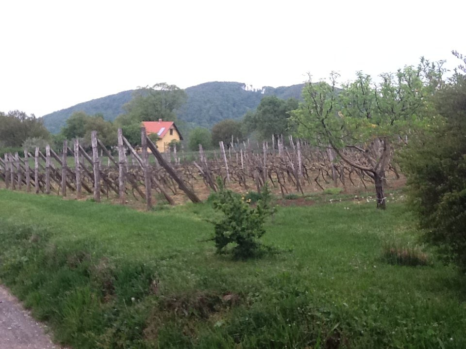 Among the wine cellars of southern Hungarian village Hosszúhetény, with the Hármashegy mountain.